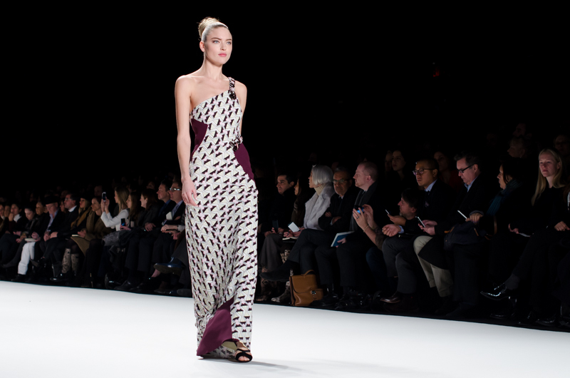 Martha Hunt walks the runway at the Carolina Herrera Fall/Winter 2014 show at New York Fashion Week, February 2014.